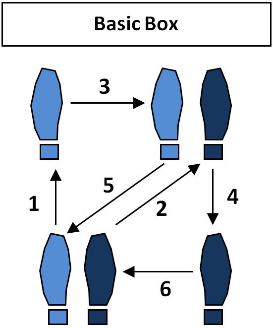 Man's foot positions for the basic box dance figure in rhumba